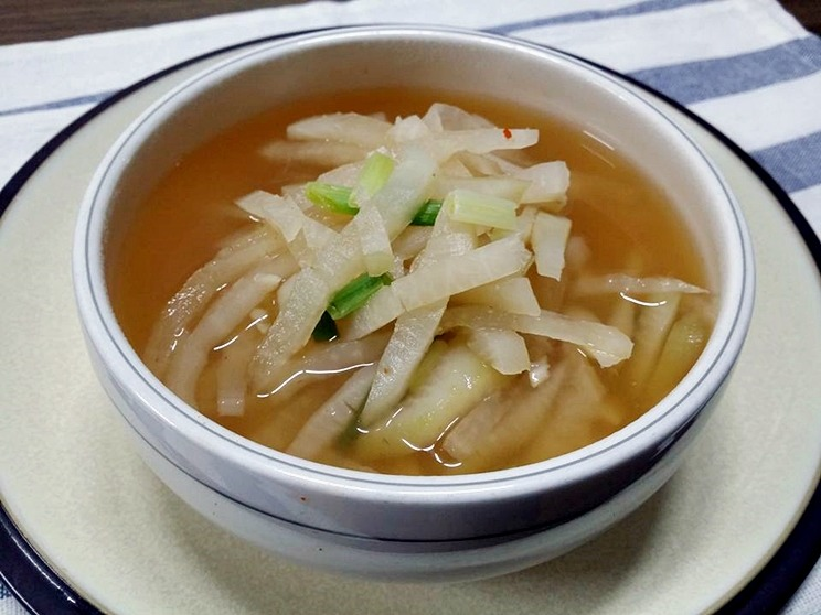 dongchimi-doenjang-guk (soybean paste soup with radish water kimchi)